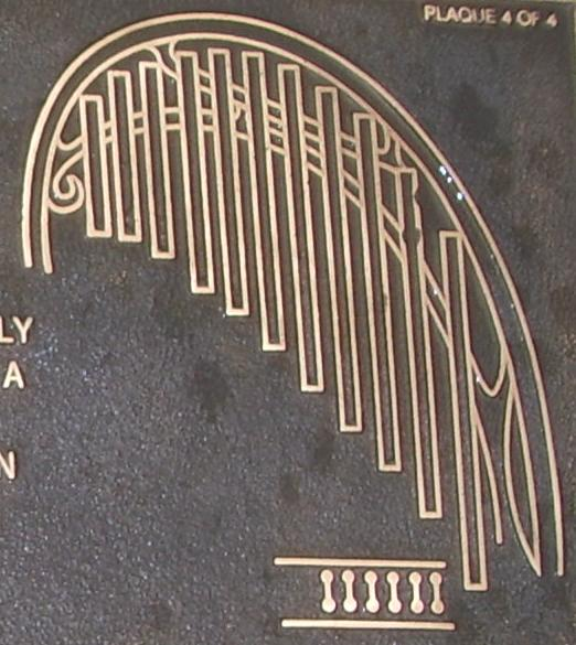 Hornsby water clock: detail of plaque showing diagram showing general layout of carillon.